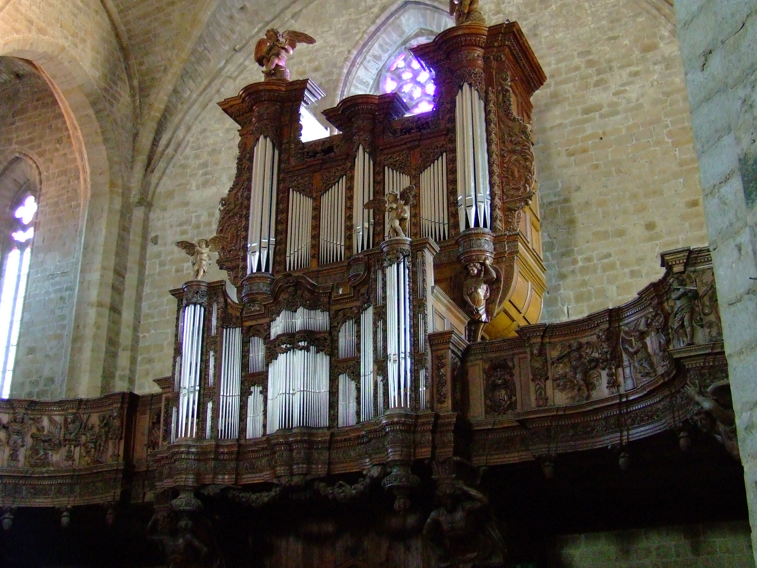 organ of La Chaise-Dieu